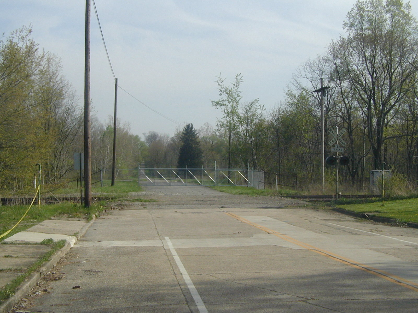 The Windham gate of the Ravenna Training and Logistics Site